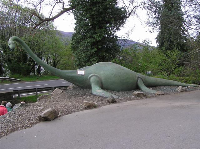 Nessie spotted The Loch Ness Monster is alive and well